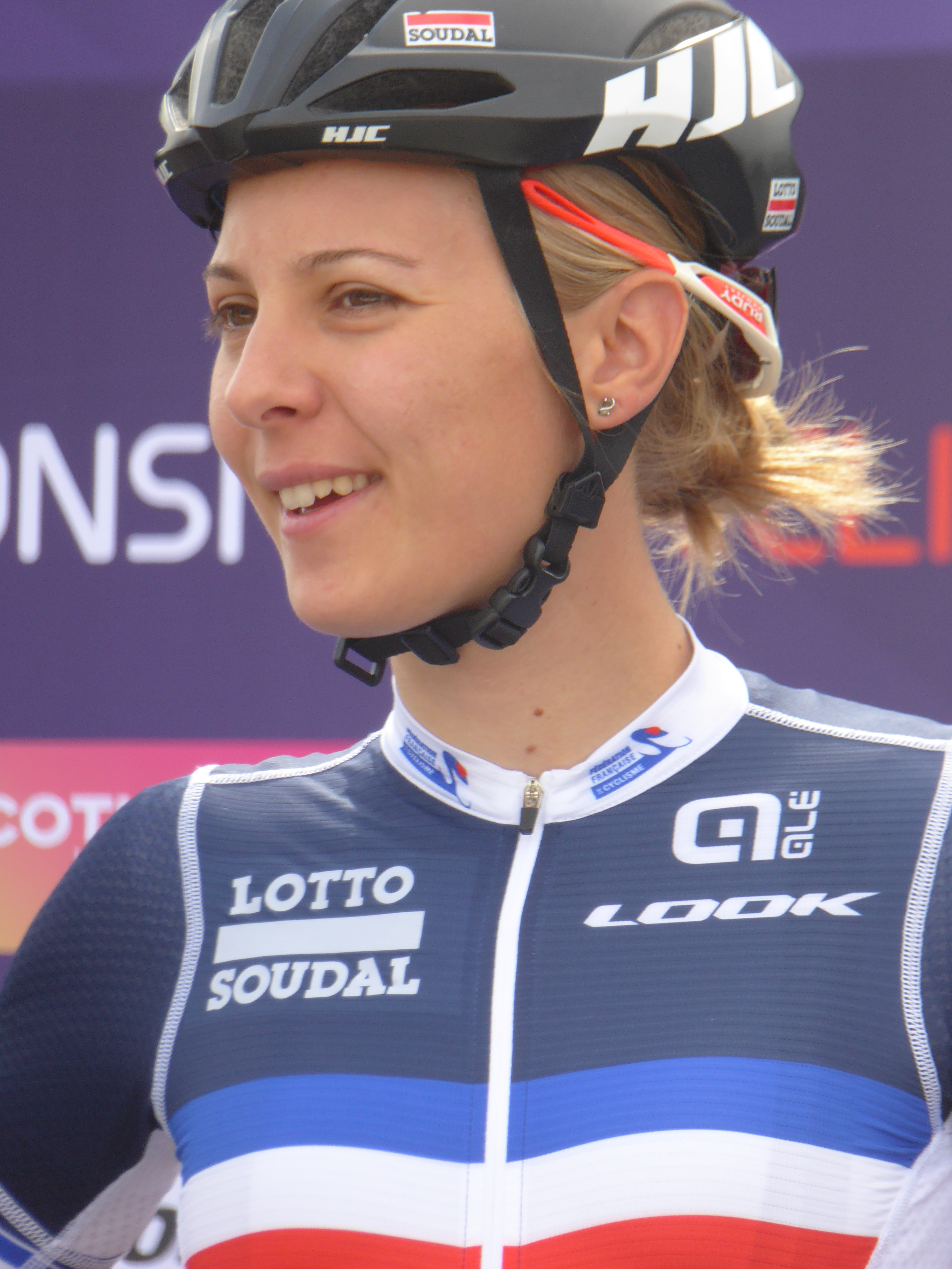 Anabelle Dreville (France), prior to the women's road race at the 2018 UEC European Road Cycling Championships in Glasgow.